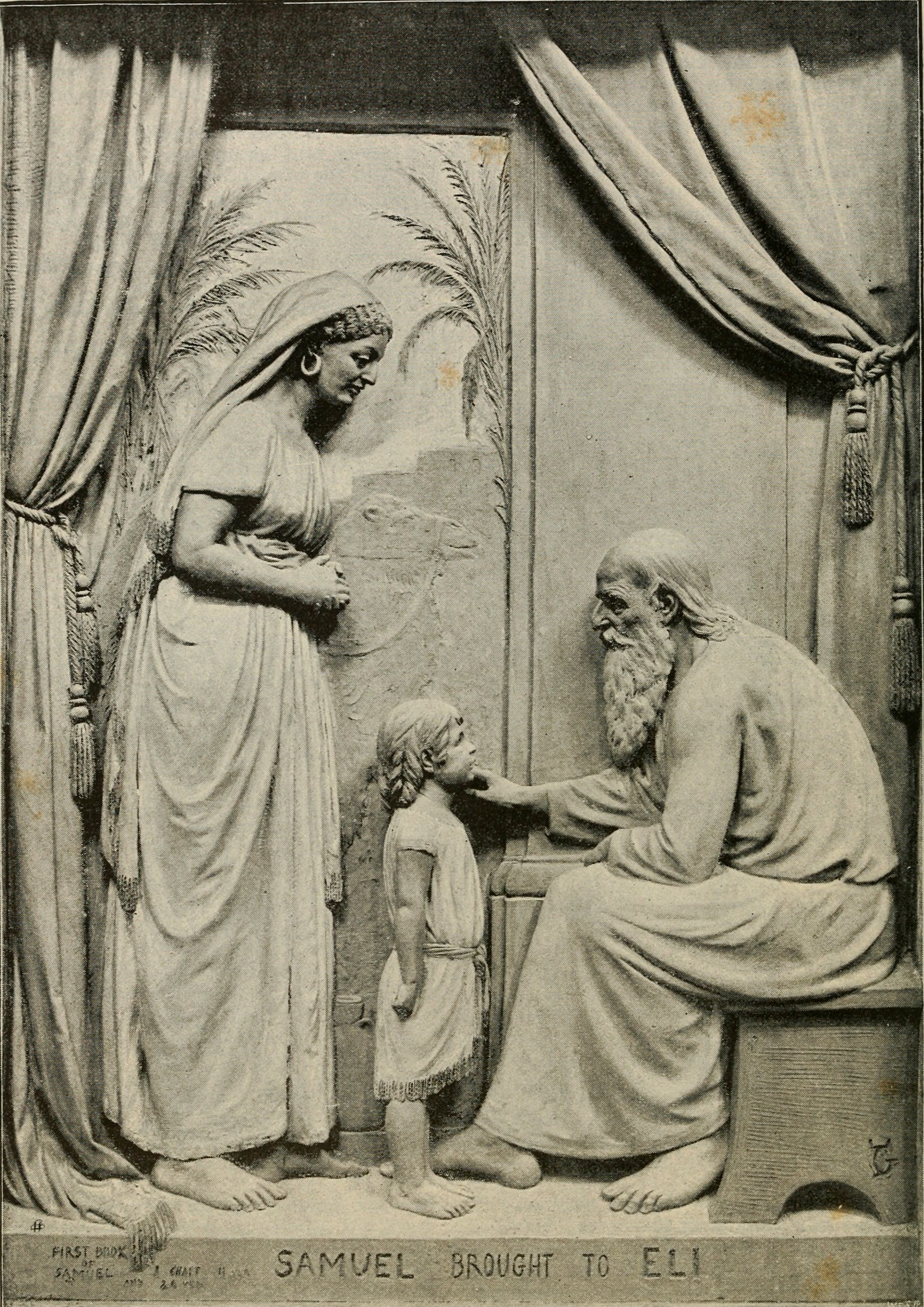 Samuel brought to Eli, by George Tinworth Title: The art Bible, comprising the Old and new Testaments : with numerous illustrations Year: 1896 (1890s) Authors: Subjects: Bible Publisher: London : G. Newnes Text Appearing Before Image: NEAR BETHLEHEM. 323 Text Appearing After Image: I -- (Sudf-^c TiniLOrth THE FIEST BOOK OF SAMUEL OTHERWISE CALLED THE FIRST BOOK OF THE KINGS